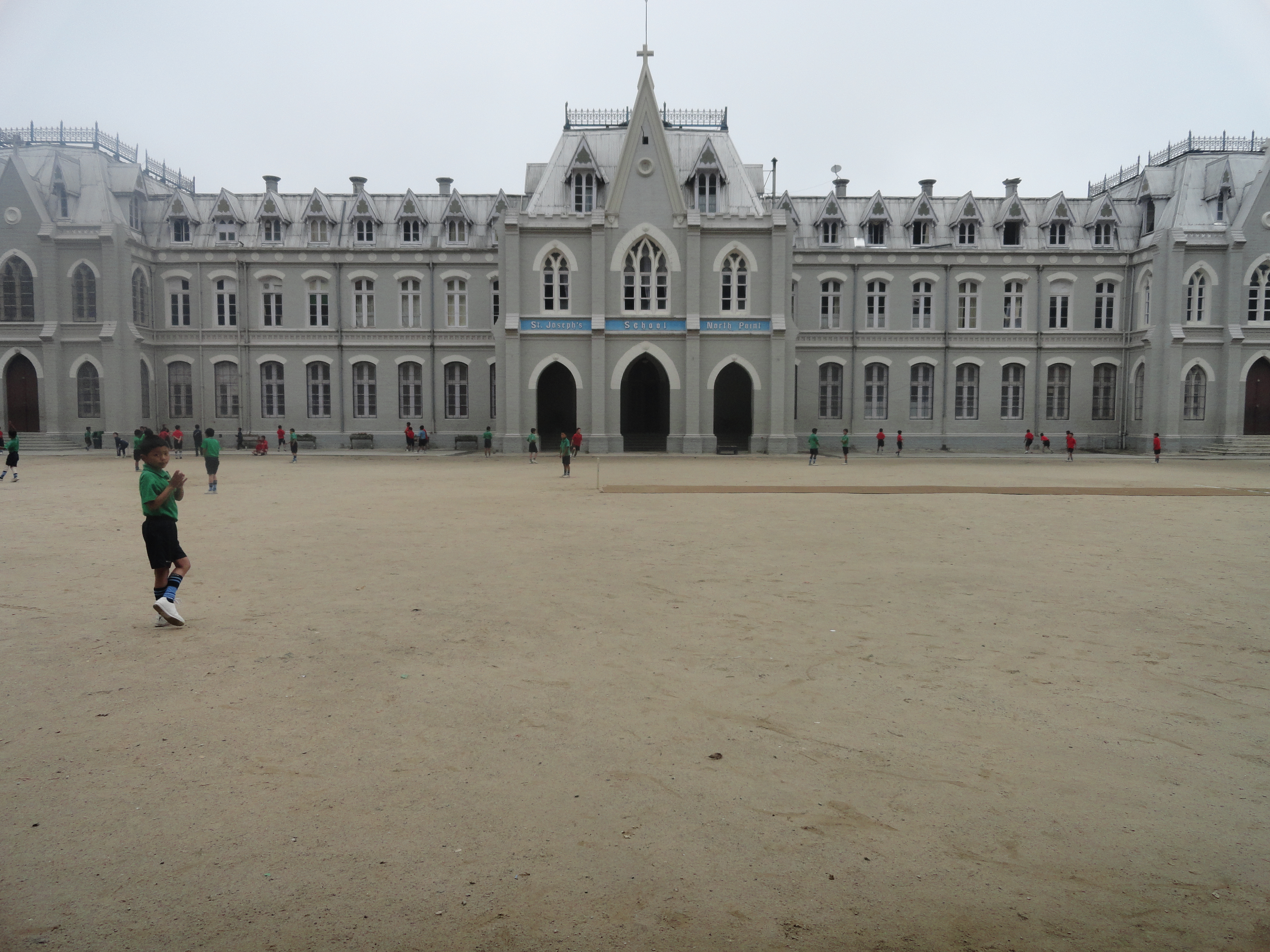 The front view of the Main building of the St. Joseph's boy's boarding school, Darjeeling.